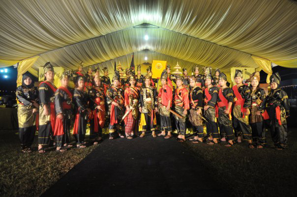 IPPM members at the Installment ceremony of DYMM Yang Di Pertuan Besar Negeri Sembilan, Tuanku Muhriz Ibni Almarhum Tuanku Munawir Daulat Negeri Sembilan.